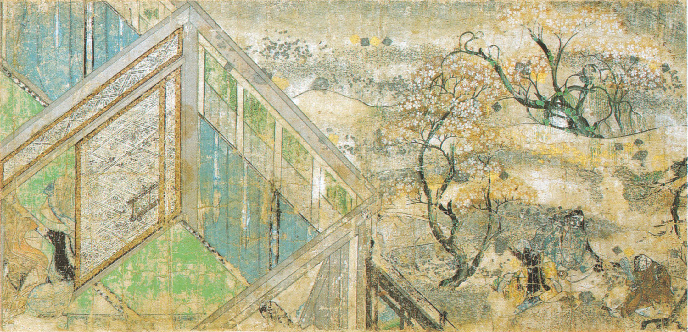 A scene of handscroll of NEZAME MONOGATARI, Height 25.8cm, color, gold, silver on paper, late 12th century, Japan, YAMATO-NUNKAKAN museum collection, Nara, Japan